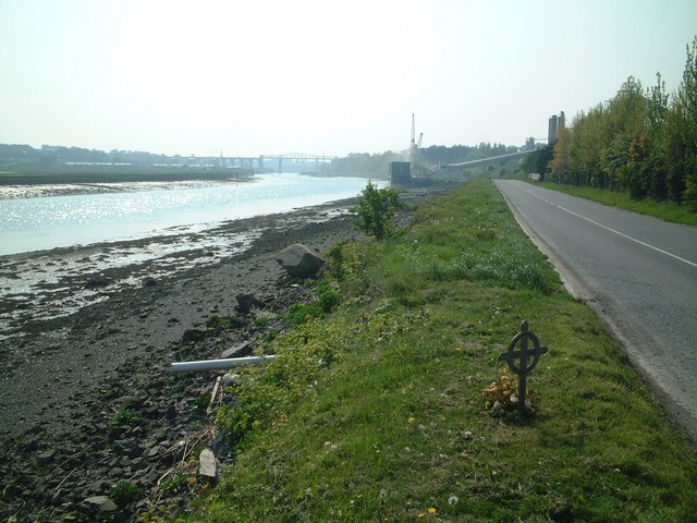 River Boyne below Drogheda Looking west towards Drogheda from Tom Roe's Point at low tide on R. Boyne. Cross at roadside commemorates 1994 accident.